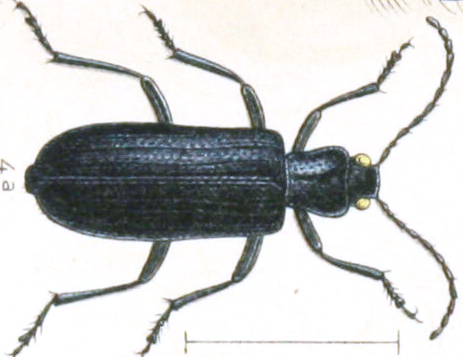 Ditylus laevis, from File:Reitter-1911-plate125.png, rotated